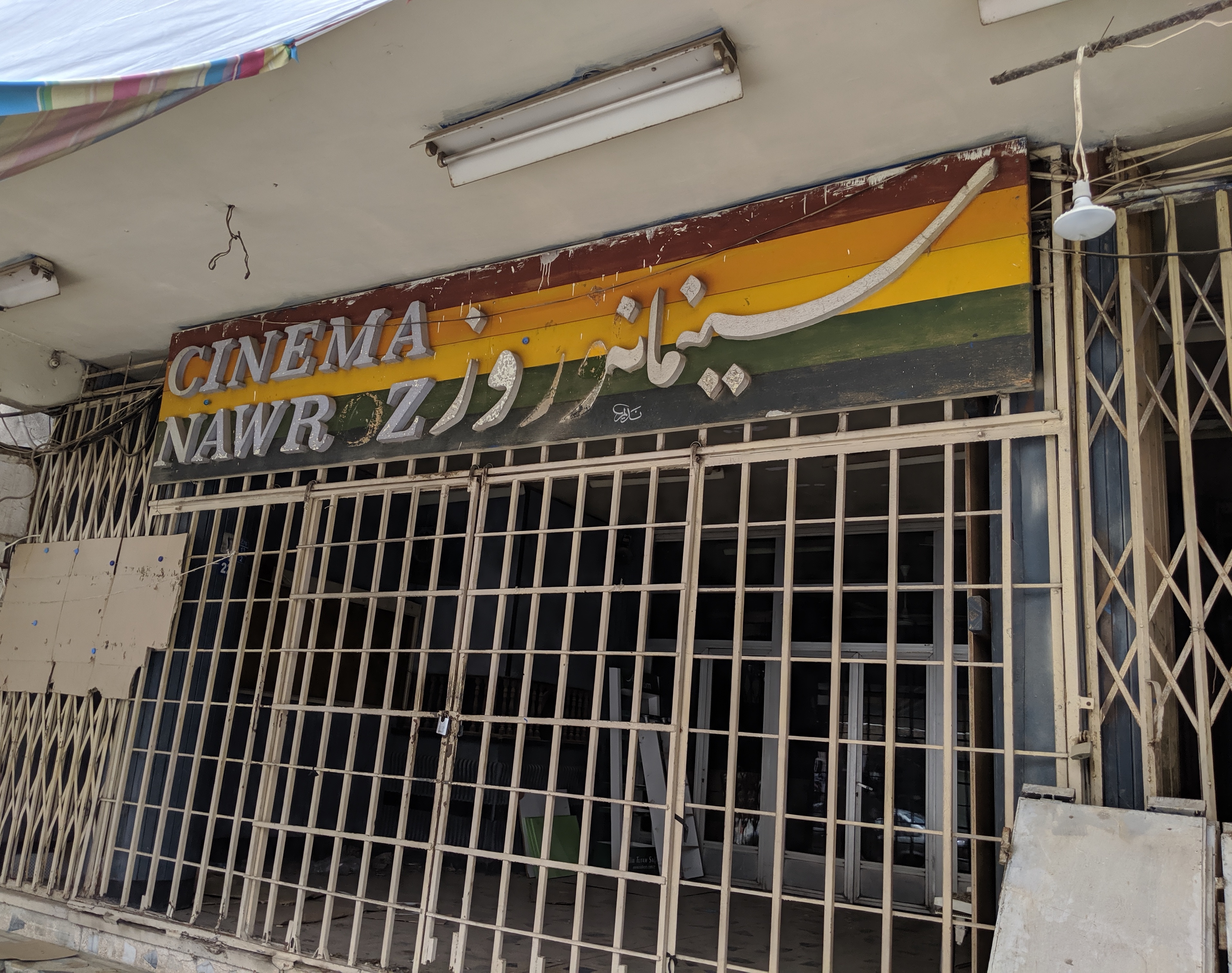 Newroz Cinema, Duhok. Iraqi Kurdistan.